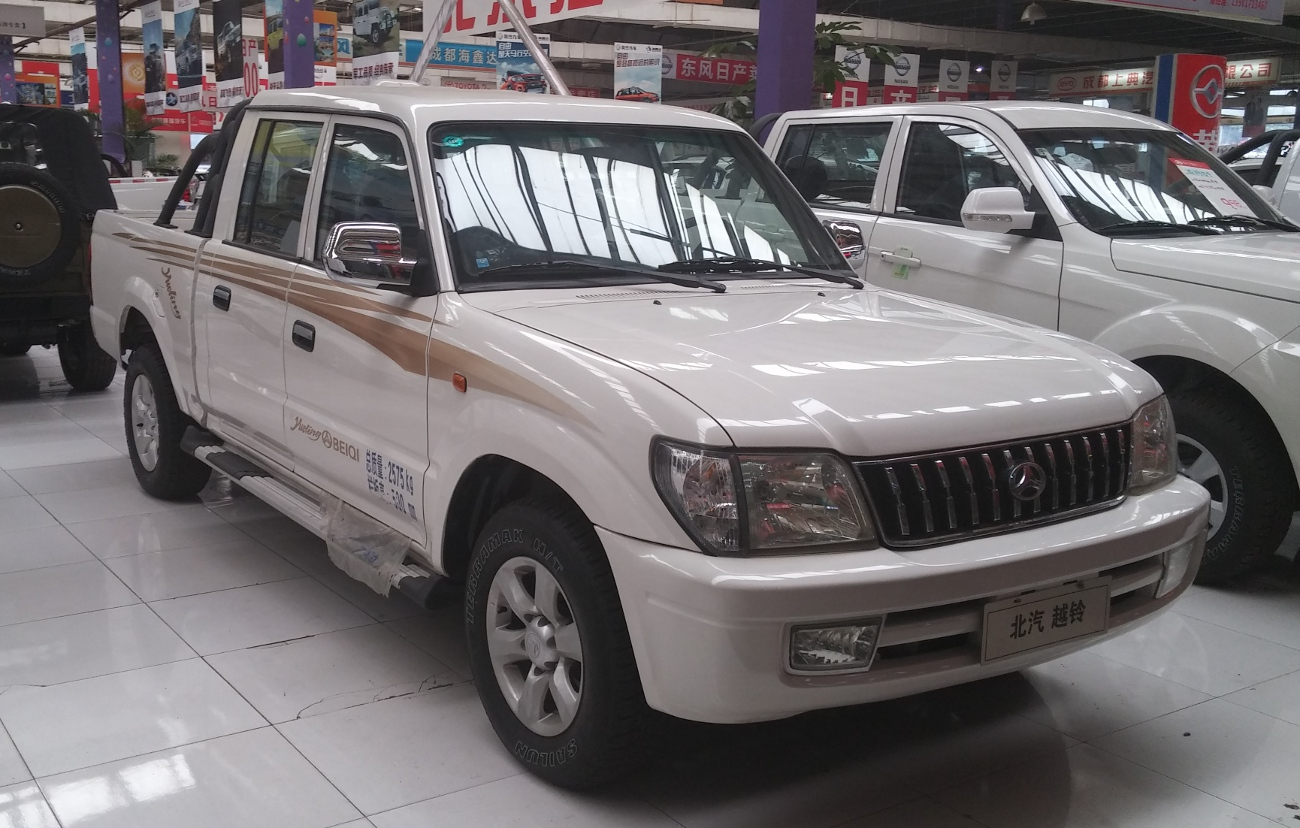 BAW Yueling photographed in Chengdu, Sichuan province, China.